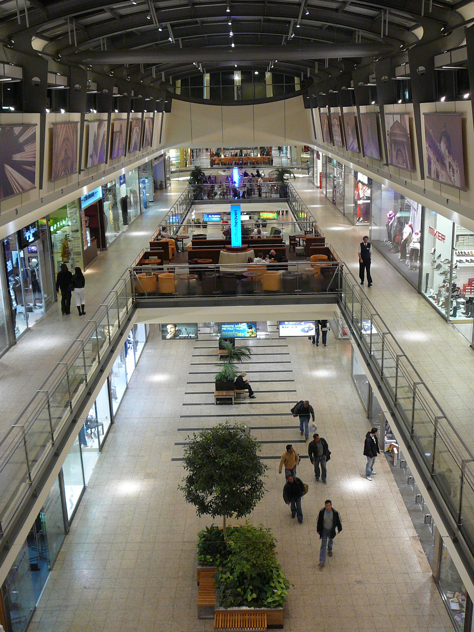 Vaňkovka in Brno